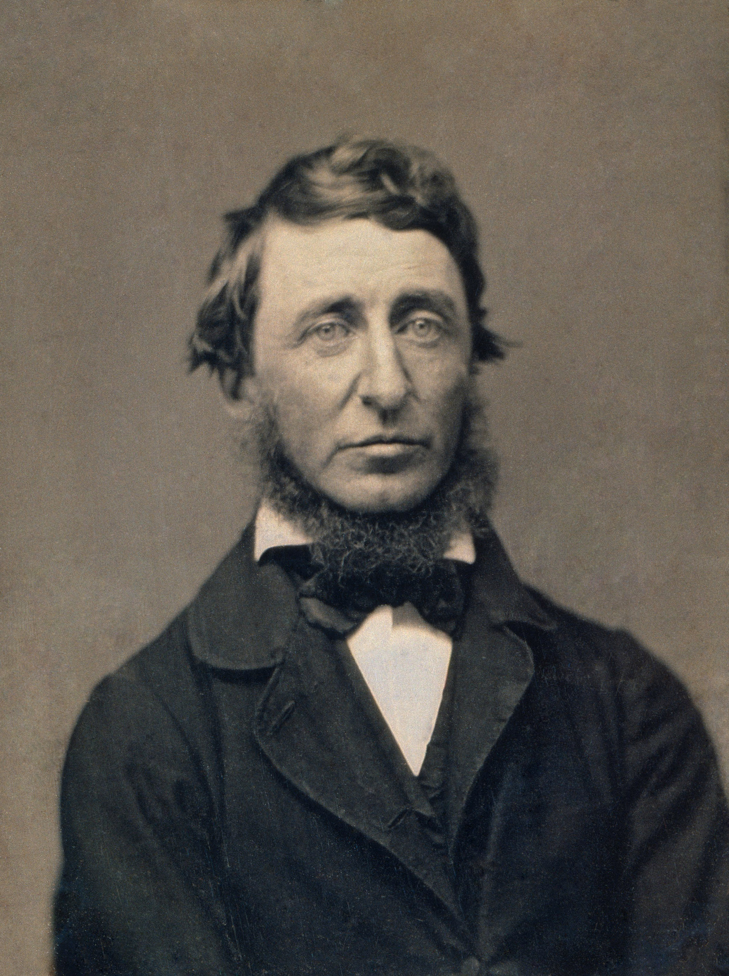 Portrait photograph from a ninth-plate daguerreotype of Henry David Thoreau. Calvin R. Greene was a Thoreau “disciple” who lived in Rochester, Michigan, and who first began corresponding with Thoreau in January 1856. When Greene asked for a photographic image of the author, Thoreau initially replied: “You may rely on it that you have the best of me in my books, and that I am not worth seeing personally – the stuttering, blundering, clodhopper that I am.” Yet Greene repeated his request and sent money for the sitting. Thoreau must have kept this commitment to his fan in the back of his mind for the next several months. On June 18, 1856, during a trip to Worcester, Massachusetts, Henry Thoreau visited the Daguerrean Palace of Benjamin D. Maxham at 16 Harrington Corner and had three daguerreotypes taken for fifty cents each. He gave two of the prints to his Worcester friends and hosts, H.G.O. Blake and Theophilius Brown. The third he sent to Calvin Greene in Michigan. “While in Worcester this week I obtained the accompanying daguerreotype – which my friends think is pretty good – though better looking than I,” Thoreau wrote.